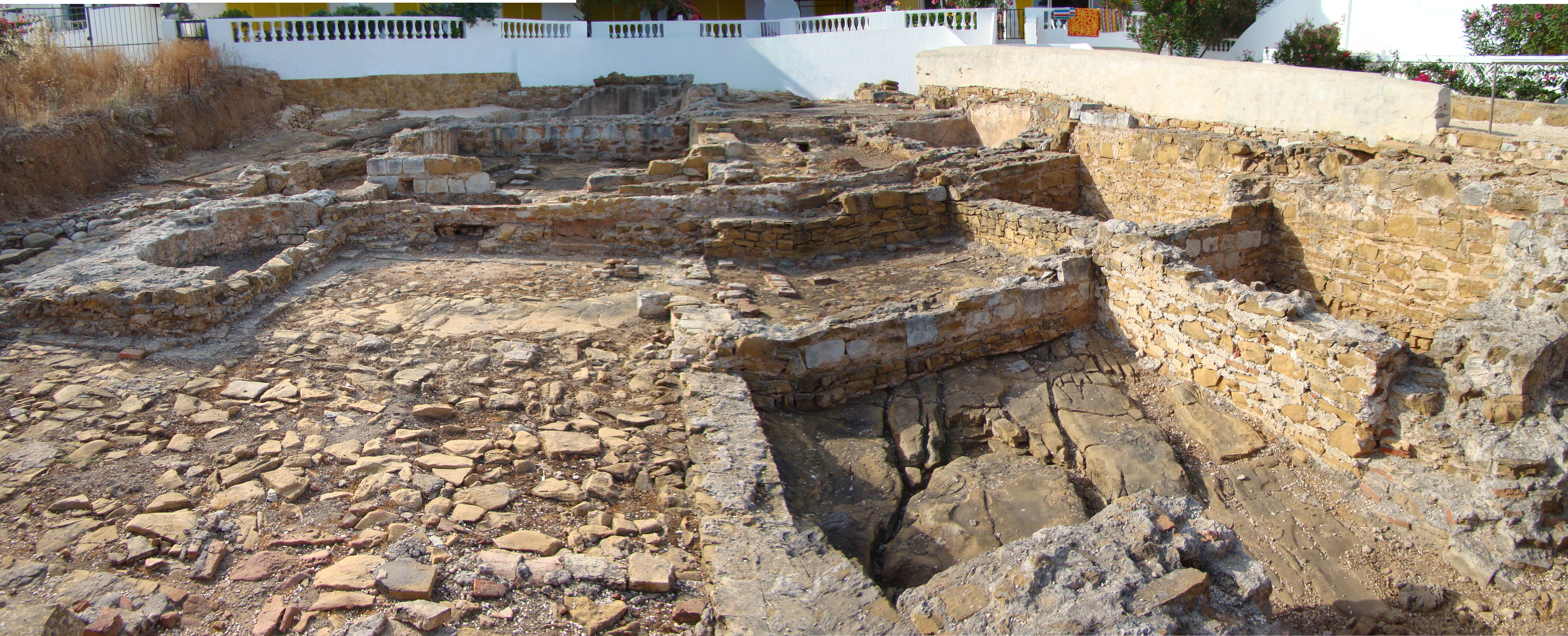 Roman baths